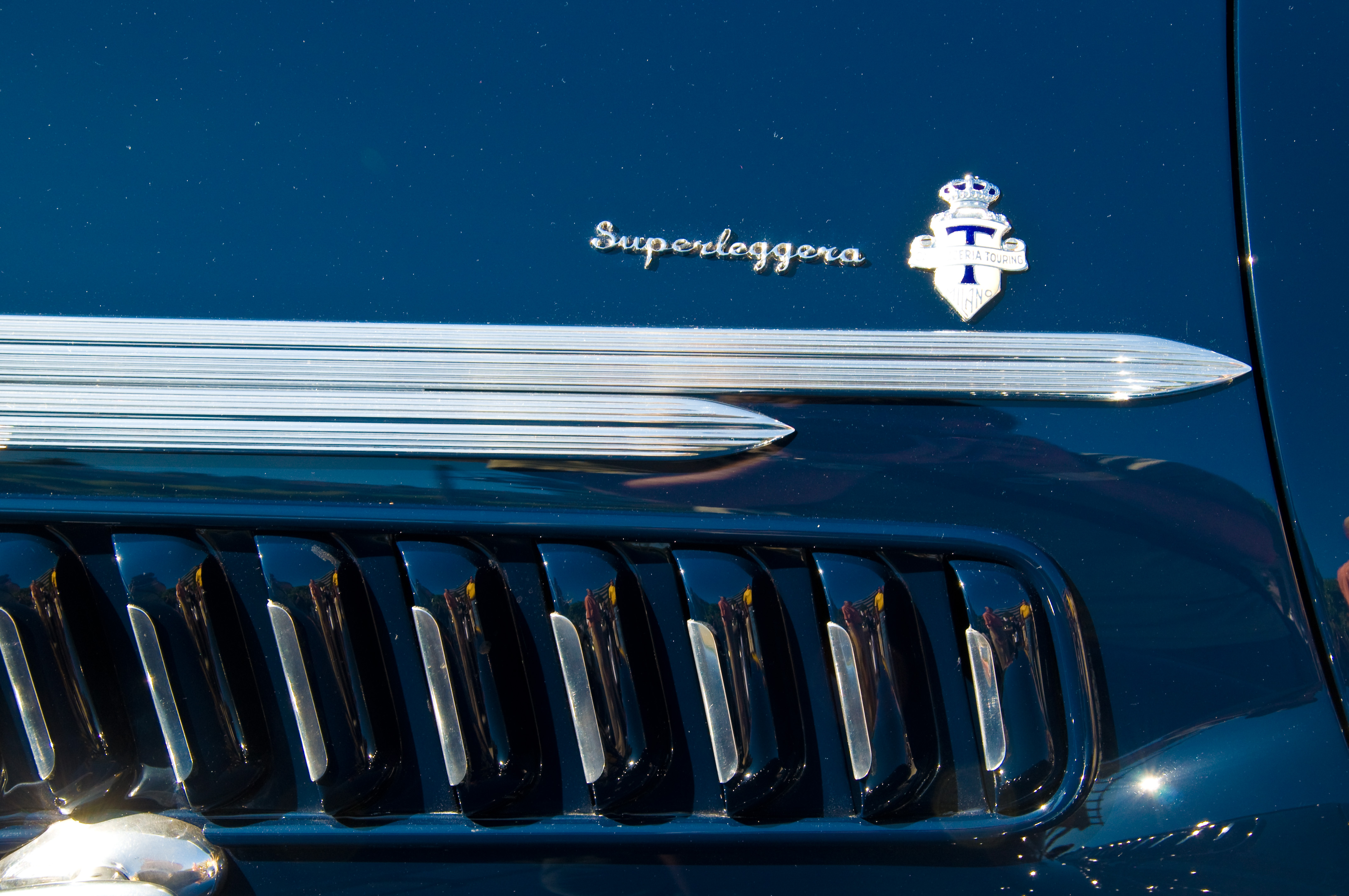 Detail of the 1938 Alfa Romeo 8C 2900B Touring Berlinetta (Shirley) s/n 412035 car.